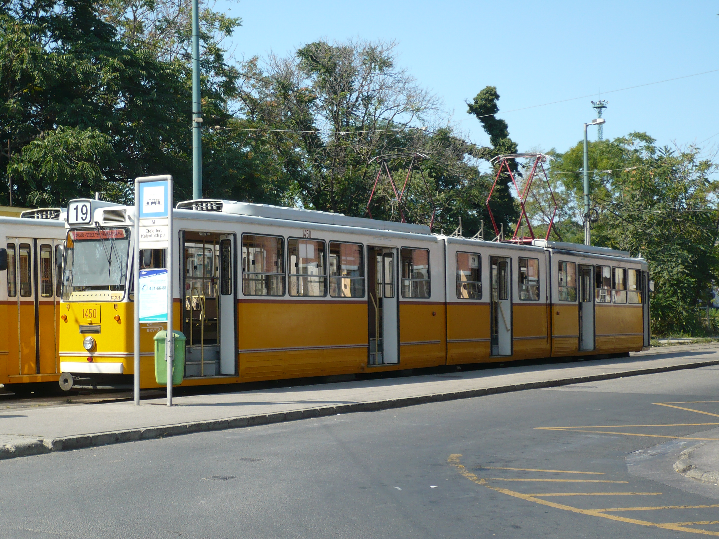 Number 1450 type CSMG2 tram in Budapest, Kelenföldi pályaudvar station.